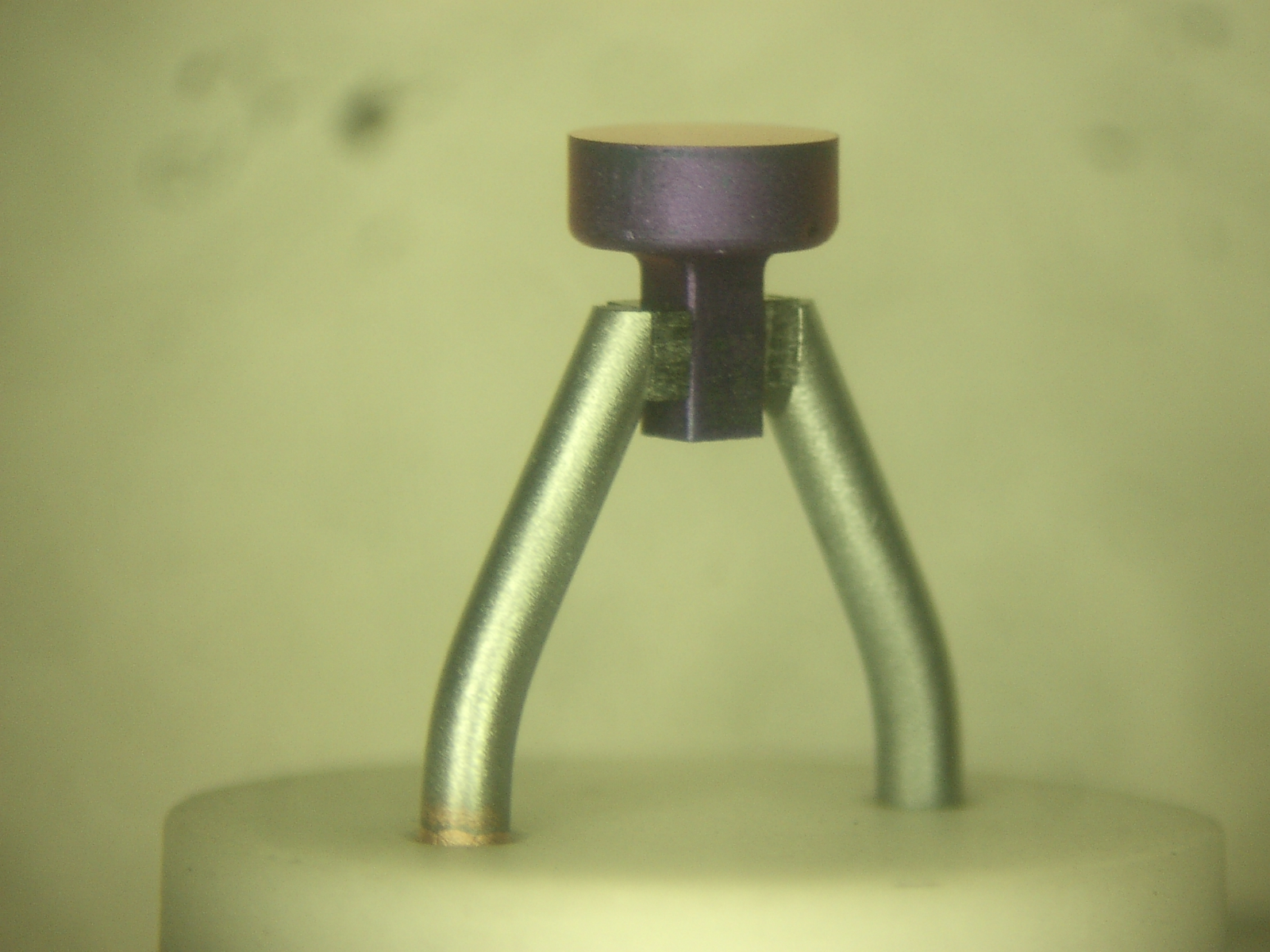 CeBix top hat